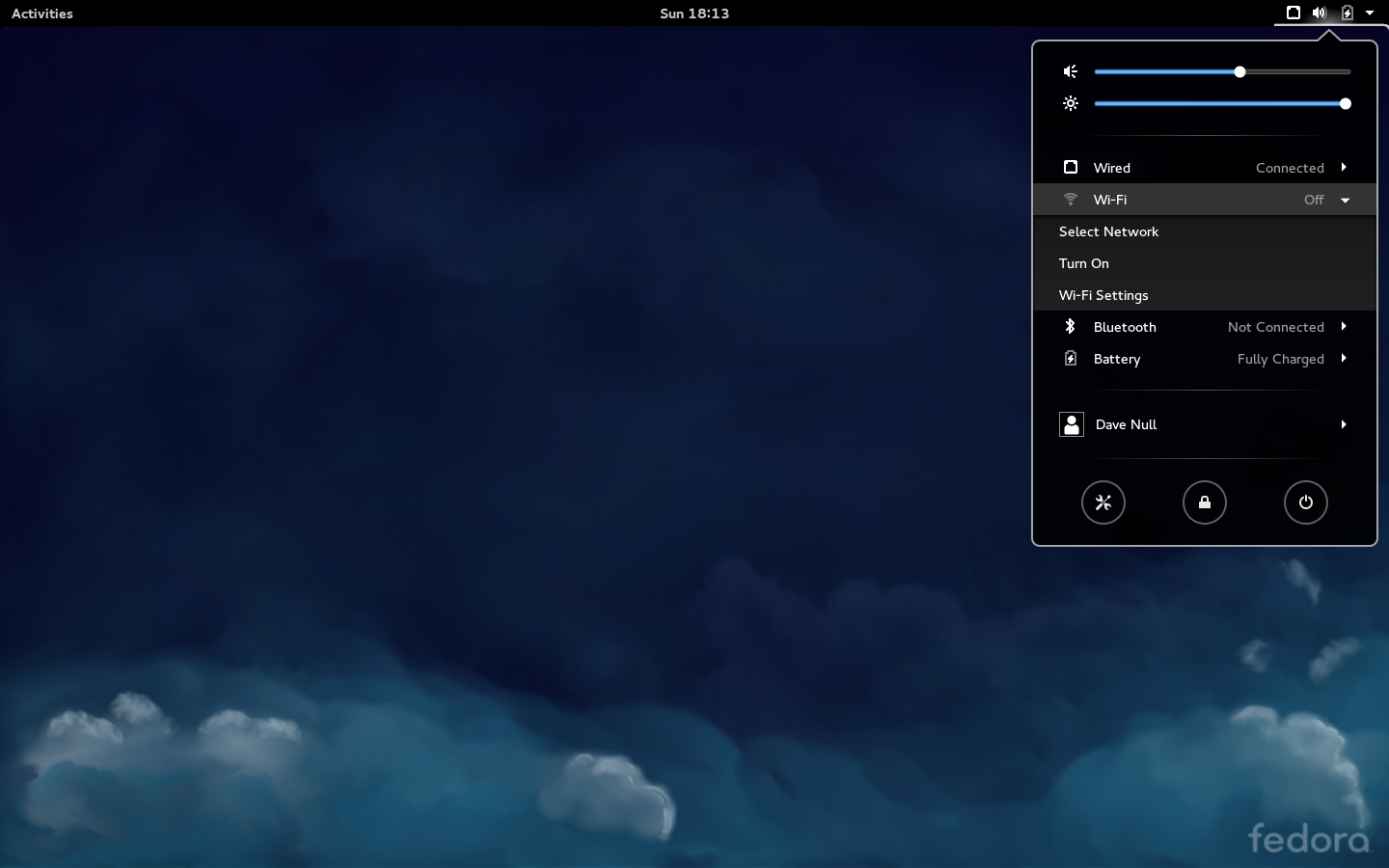 Fedora 21 desktop screenshot showing basic settings menu.